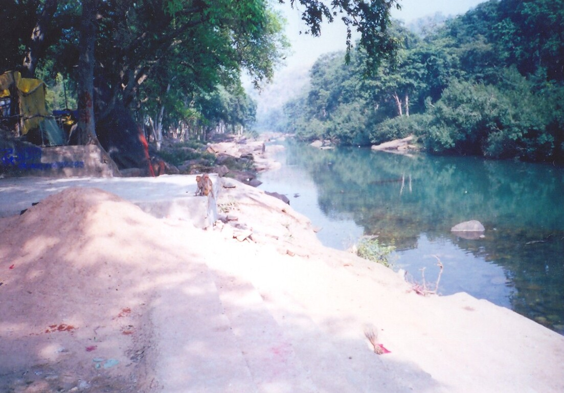 Self created image of Anusuya ashrama